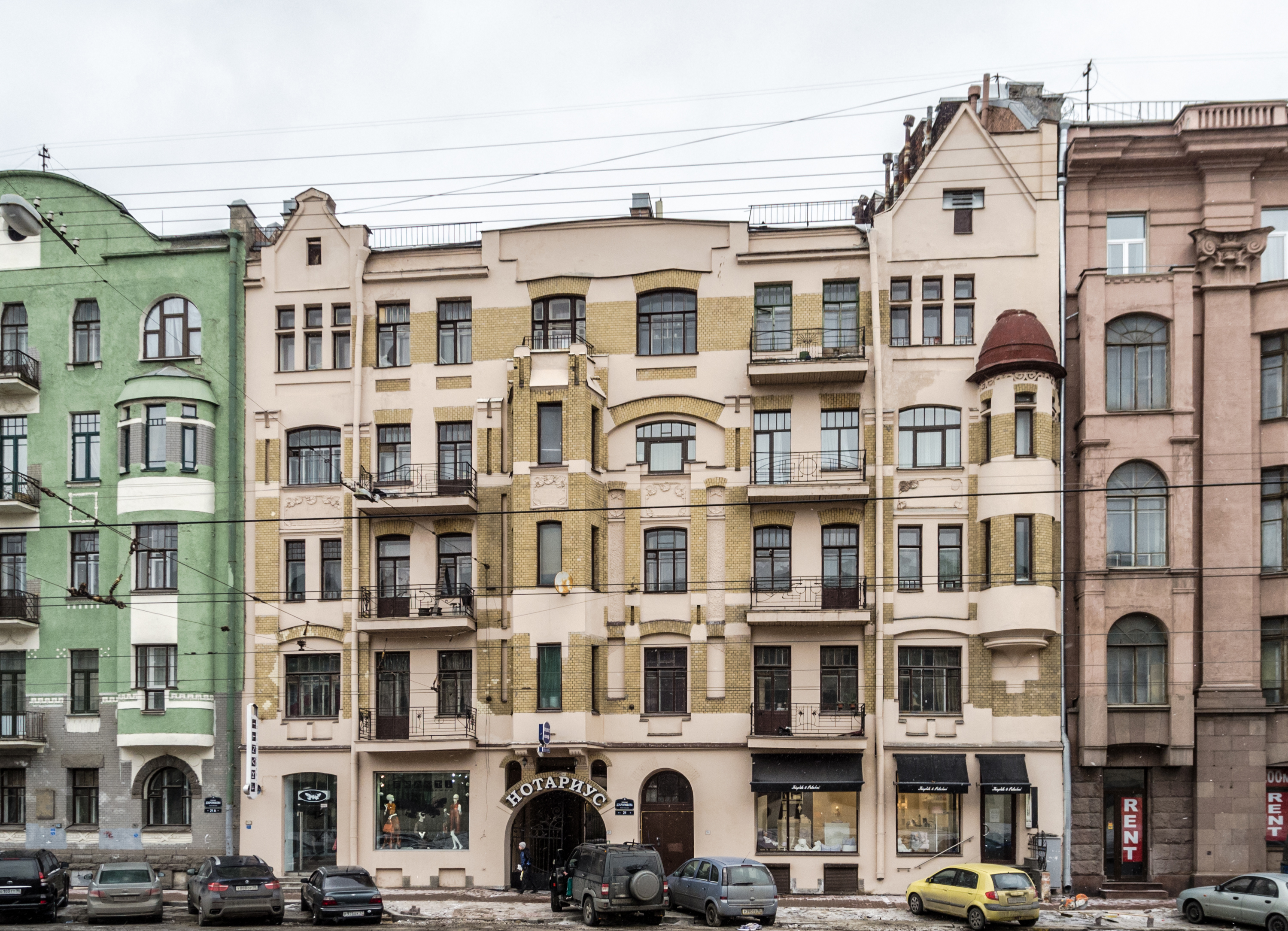 21, Dobroljubova avenue, Saint Petersburg